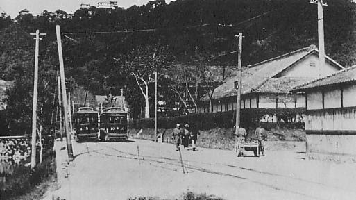 Matsuyama Electric Tramway